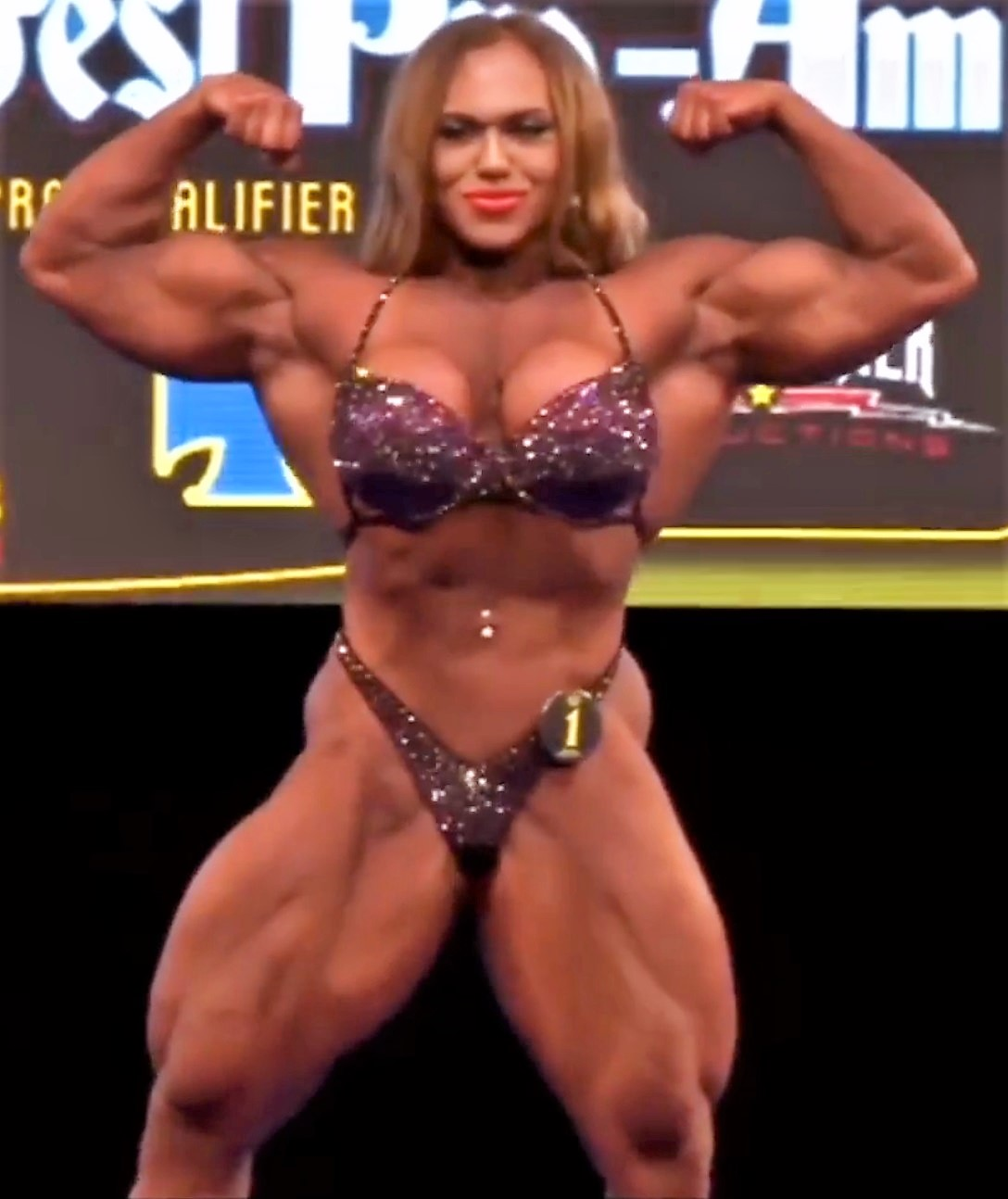 Natalia KUZNETSOVA - The Hulk Women from Russia Russian female bodybuilder Natalia Kuznetsova at the 2018 Wings of Strength Romania Muscle Fest. EastLabs.SK - bodybuilding and fitness website